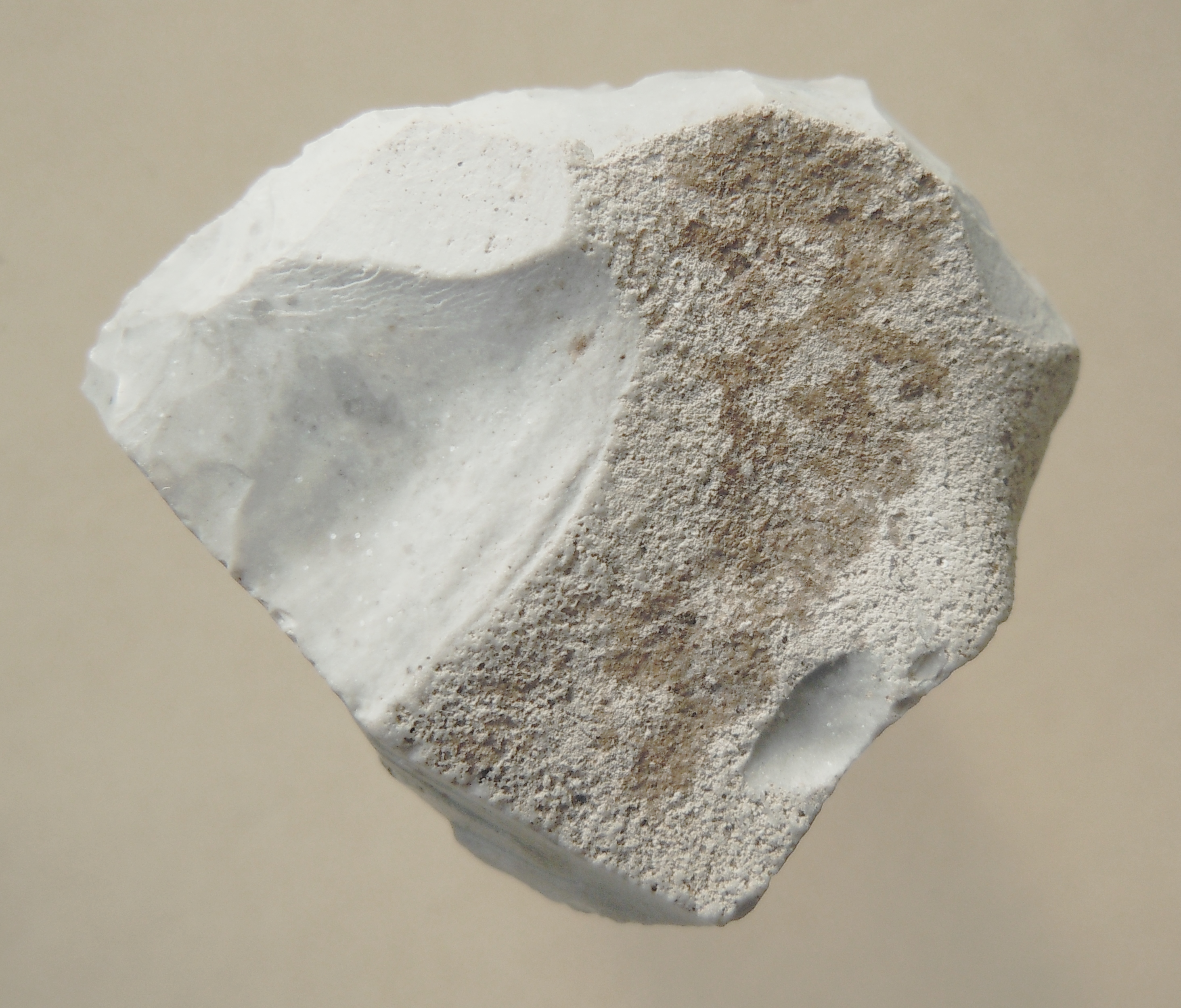 Flint scraper of Dolmen Culture, Western Caucasus